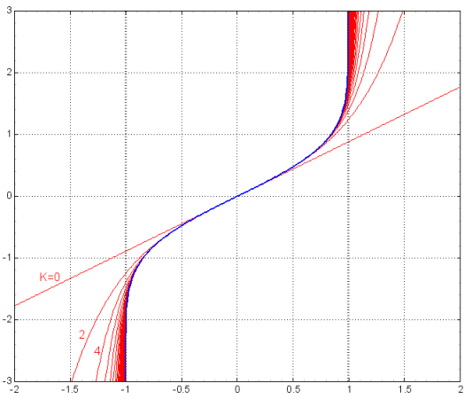 ERF reciprocal function